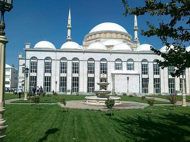 Makhachkala grand mosque - Dagestan